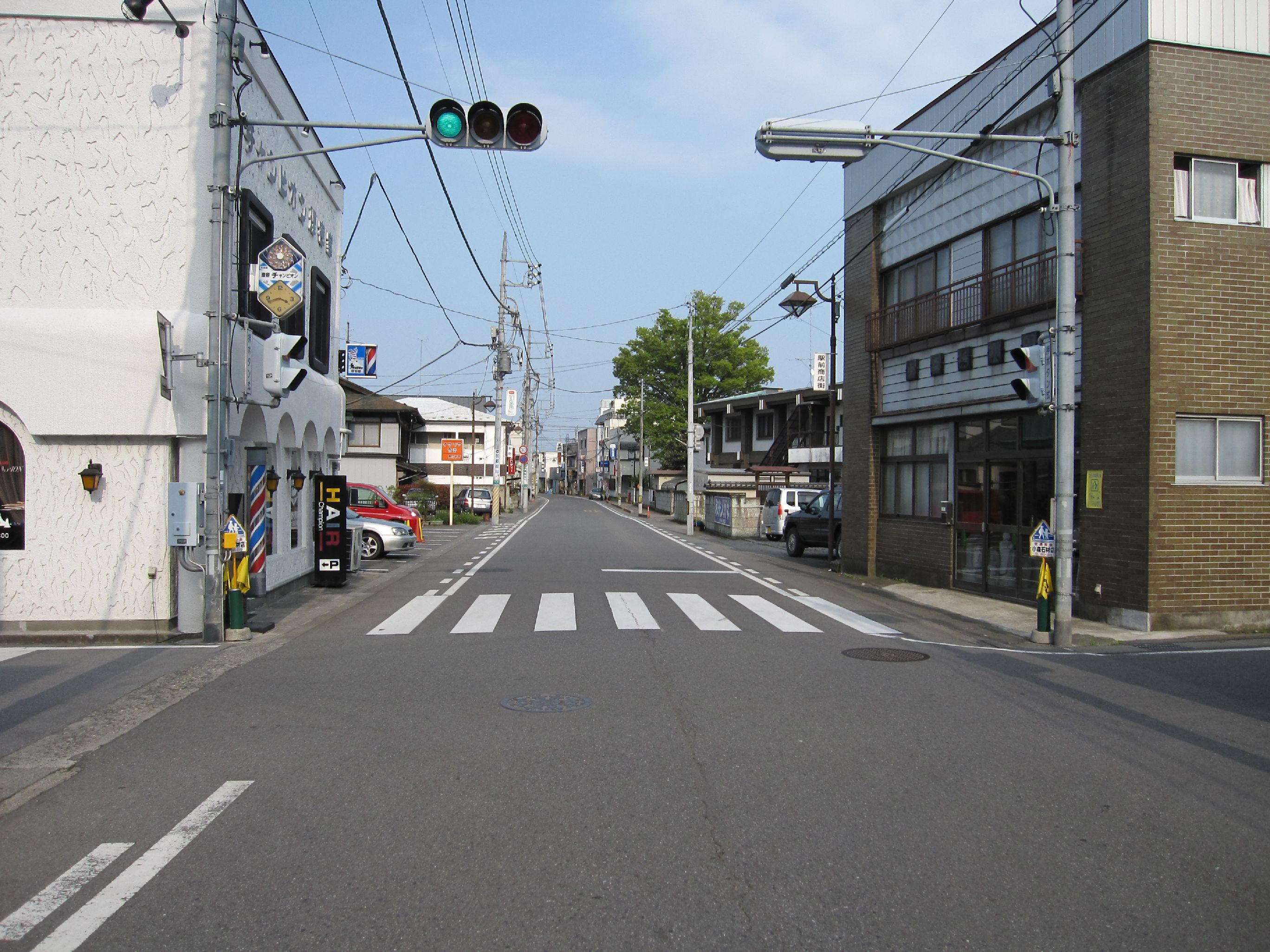 Tochigi prefectural road No.107 on Sakura city